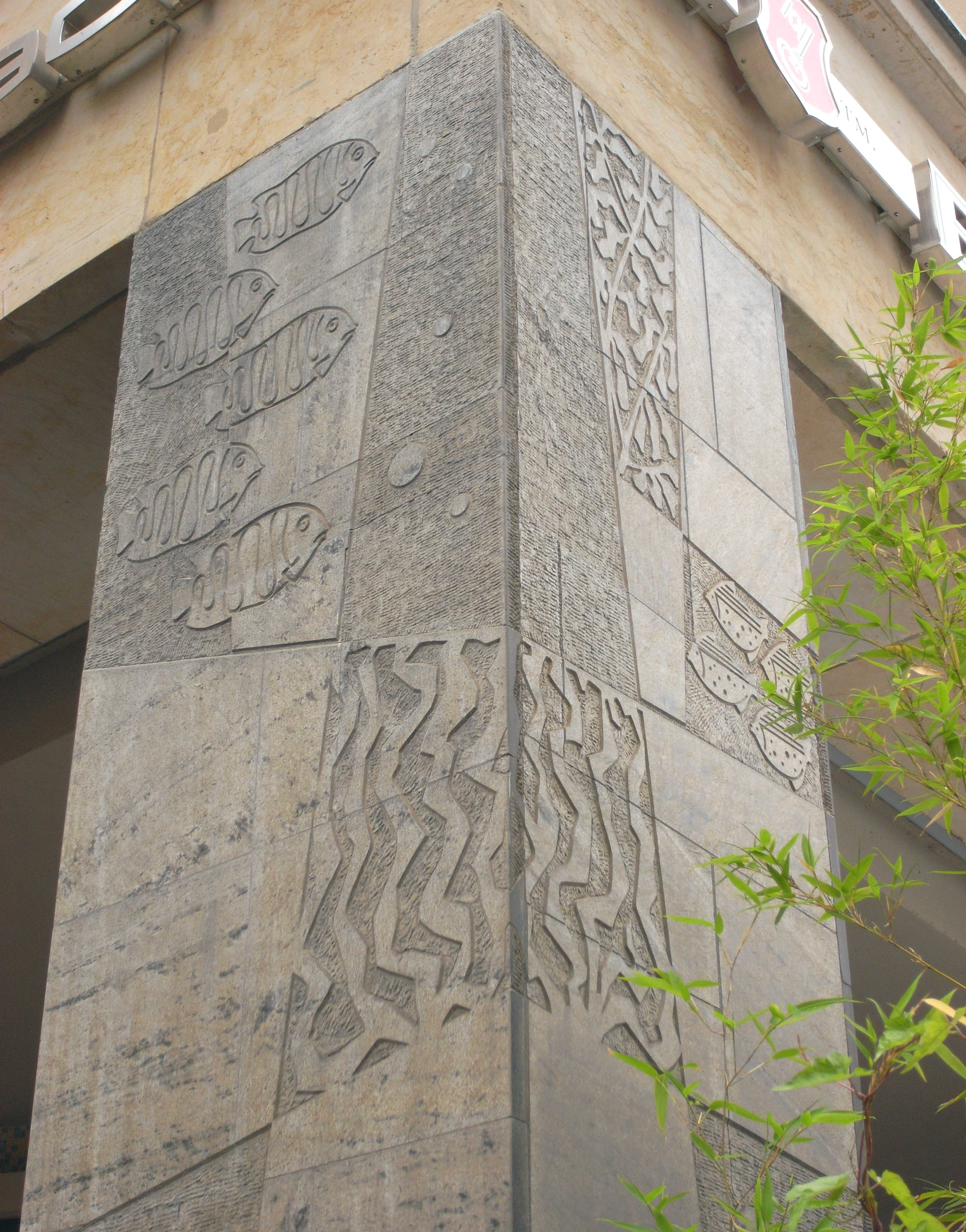 design with fruchtschiefer Theuma (slate) (Dresden, Saxony, Germany)